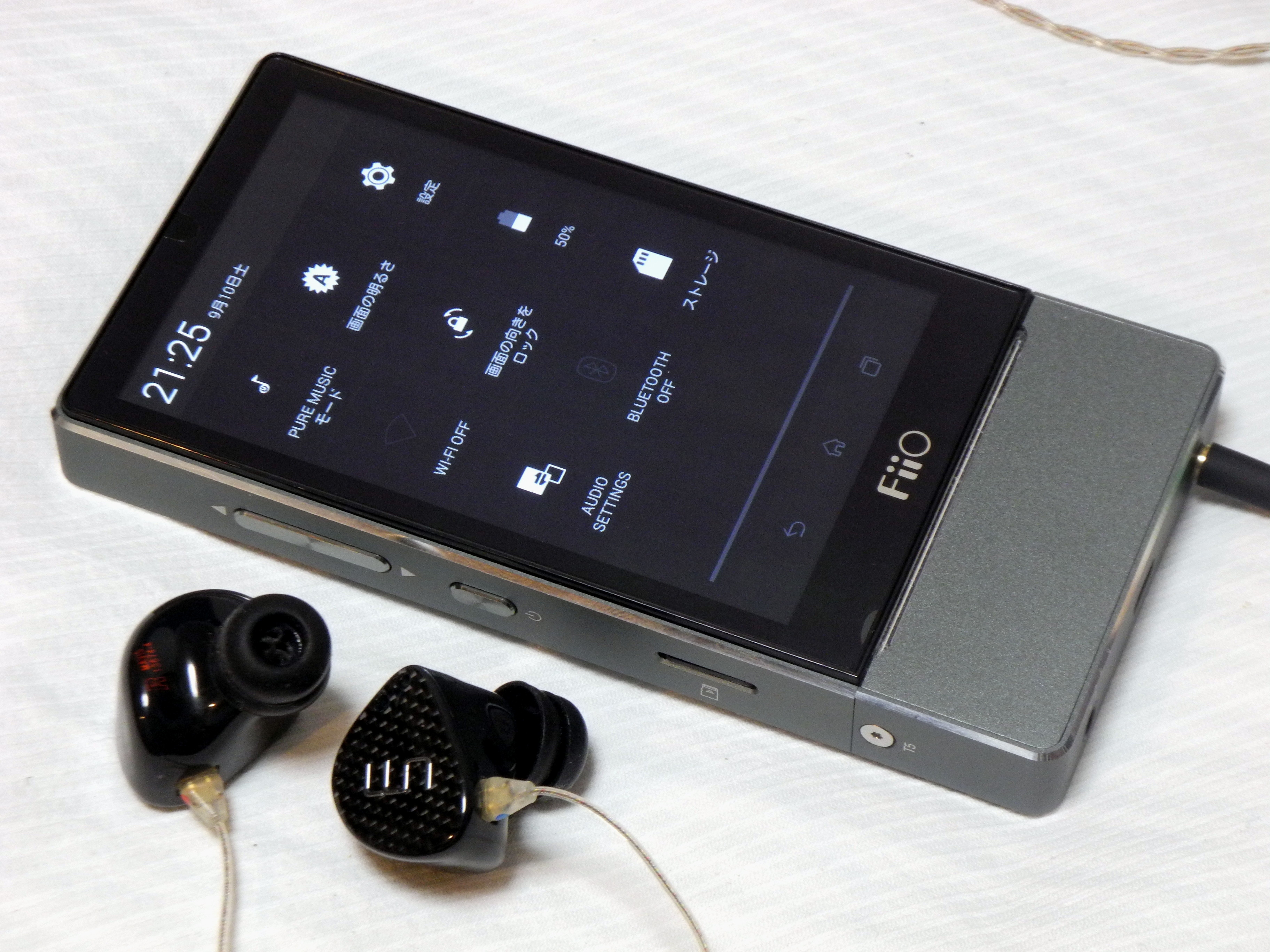 FiiO X7